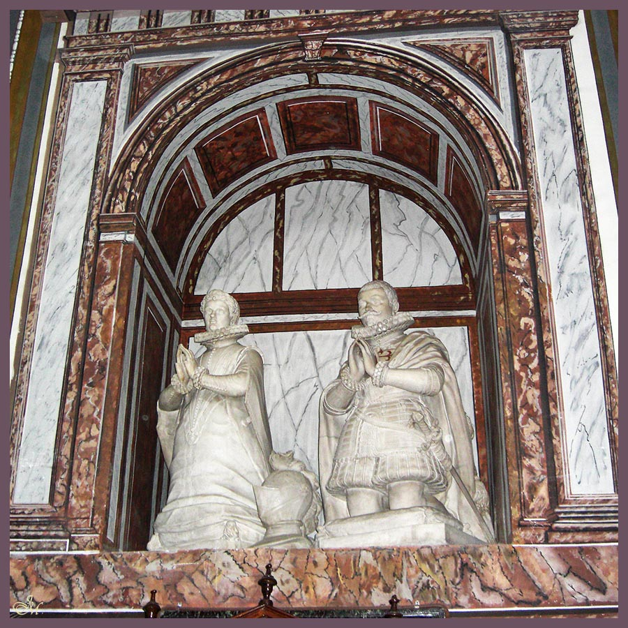 Sepulchre of Rodrigo Calderón